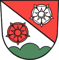 Coat of arms of Großfahner